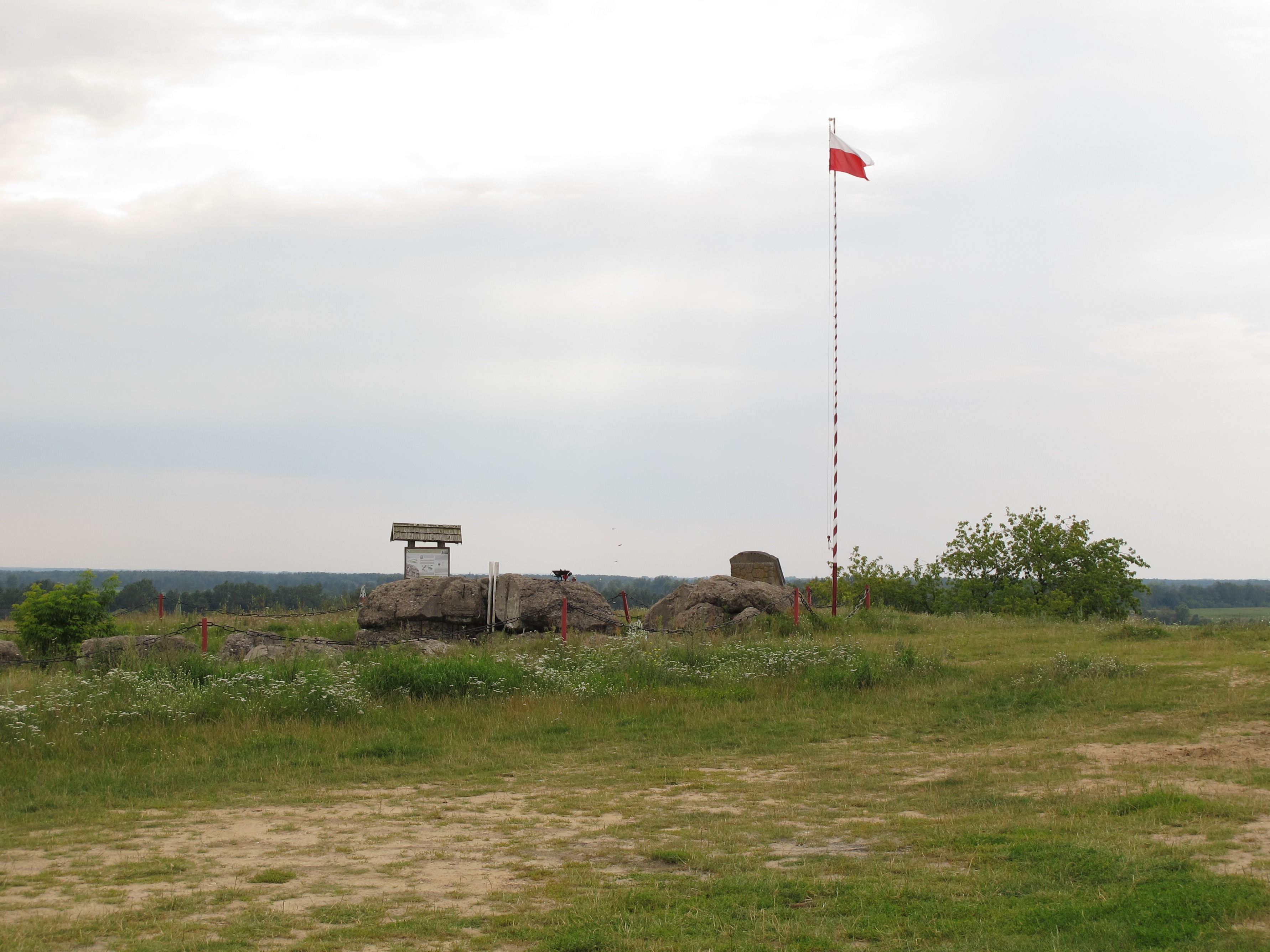 Cpt. Raginis bunker ruins in the, Góra Strękowa village, gmina Zawady, podlaskie, Poland